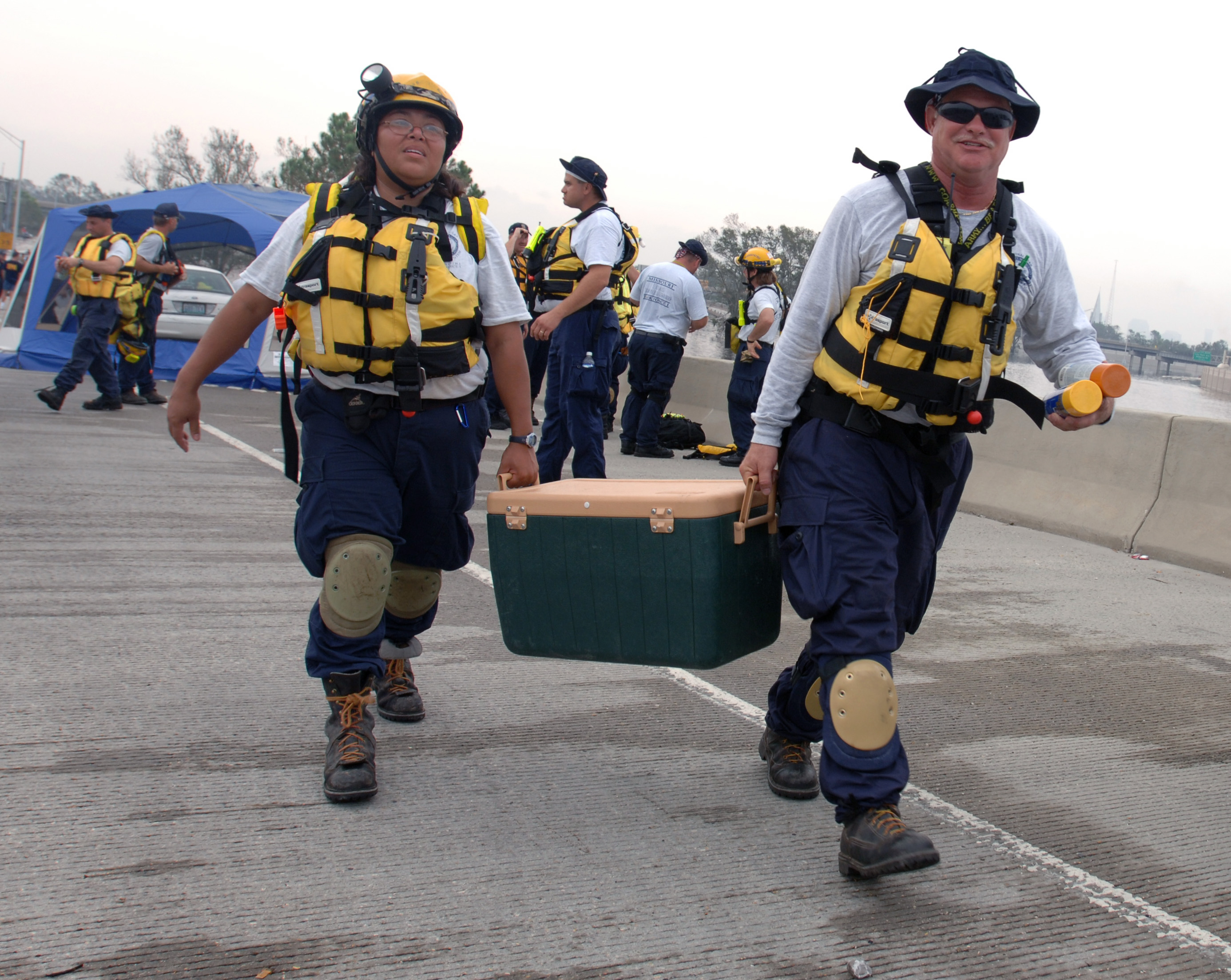 New Orleans, LA, September 1, 2005 -- Members of the FEMA Urban Search and Rescue Missouri task force one carry a cooler to the staging area where rescue operations are taking place to help residents impacted by Hurricane Katrina. Jocelyn Augustino/FEMA